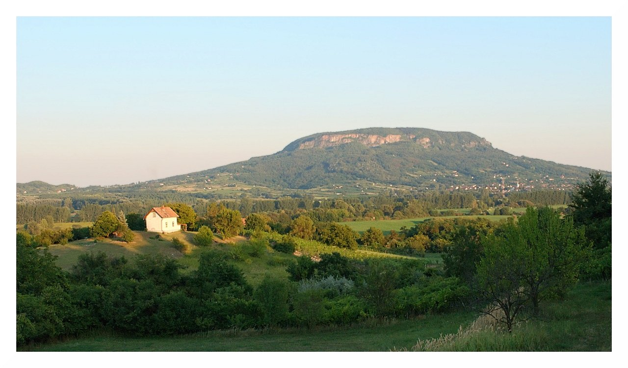 Badacsony